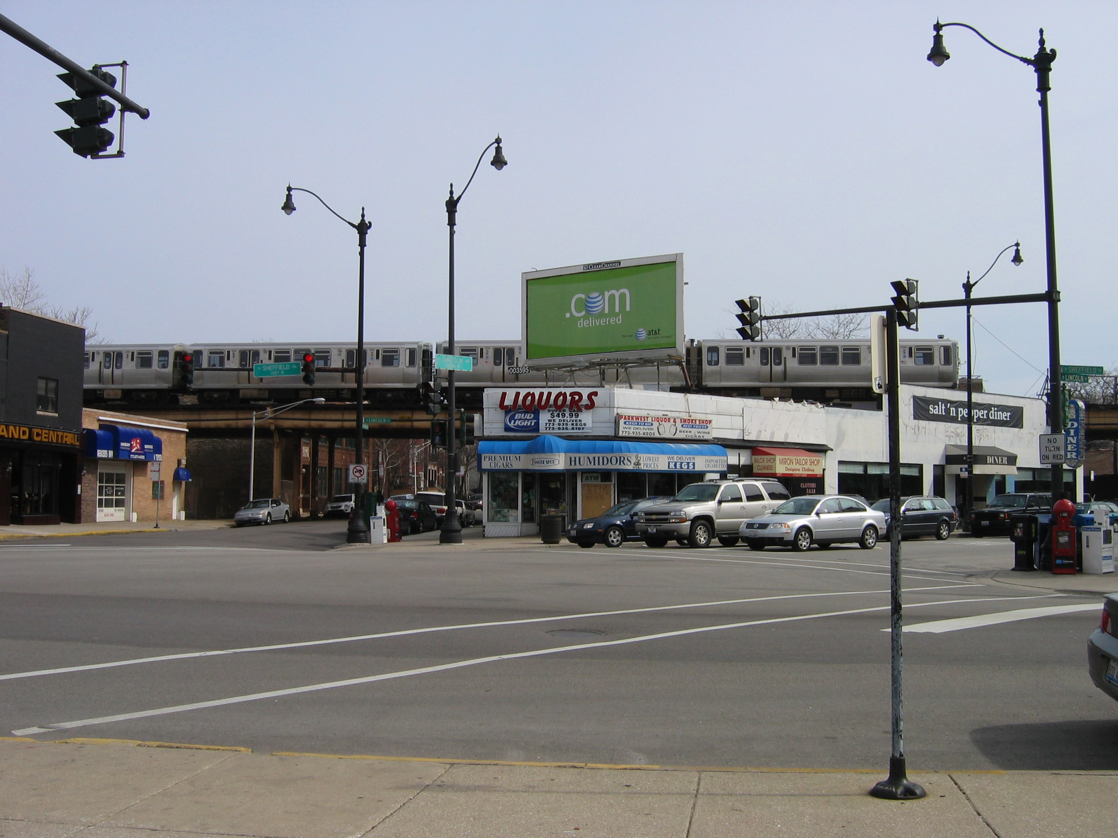 Chicago Subway passing through Lincoln Park (Chicago), at Sheffield and Lincoln Avenue, nearing the Fullerton station.